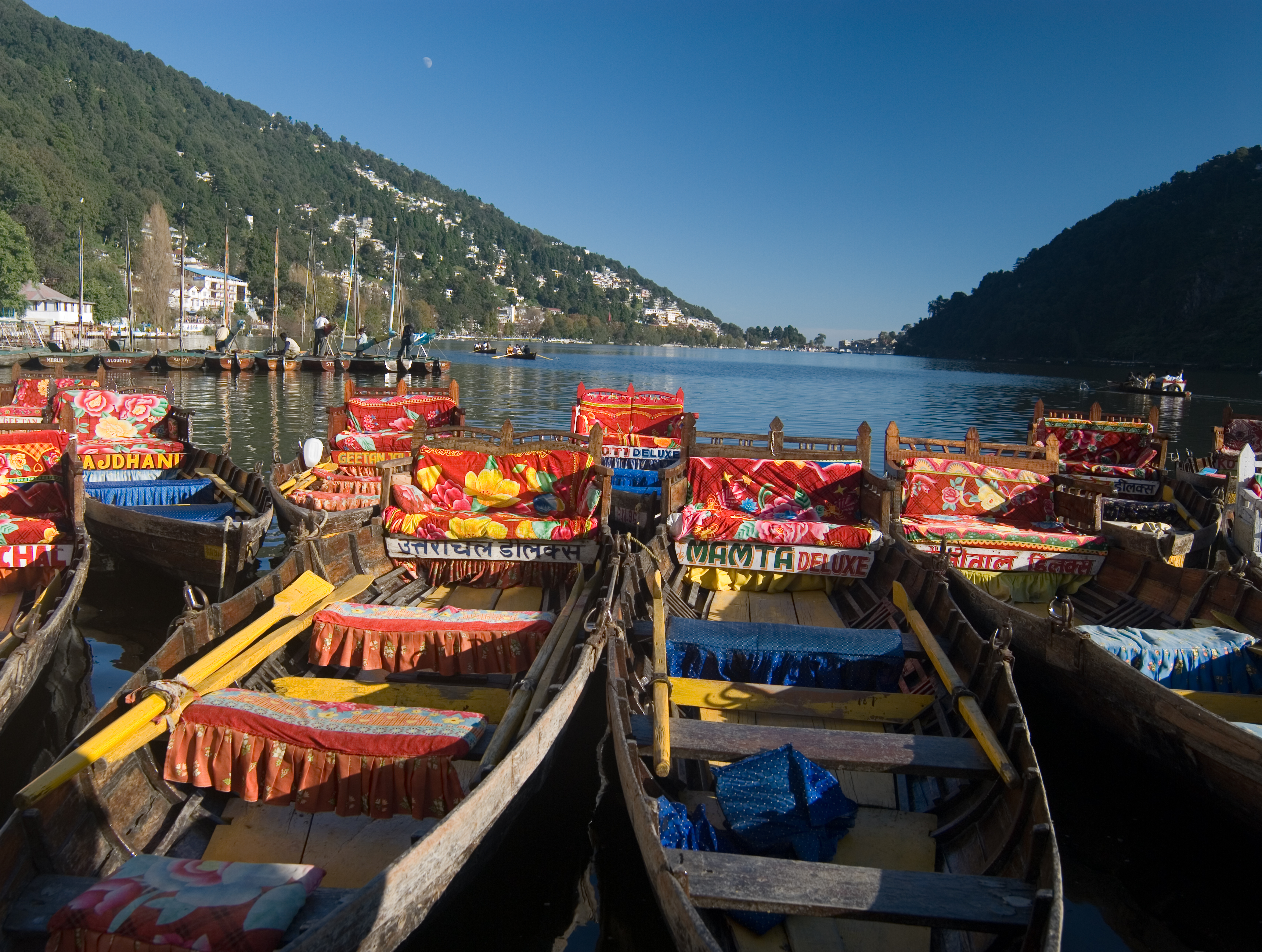 Rental boats warm the shores of Nainital in all their color.